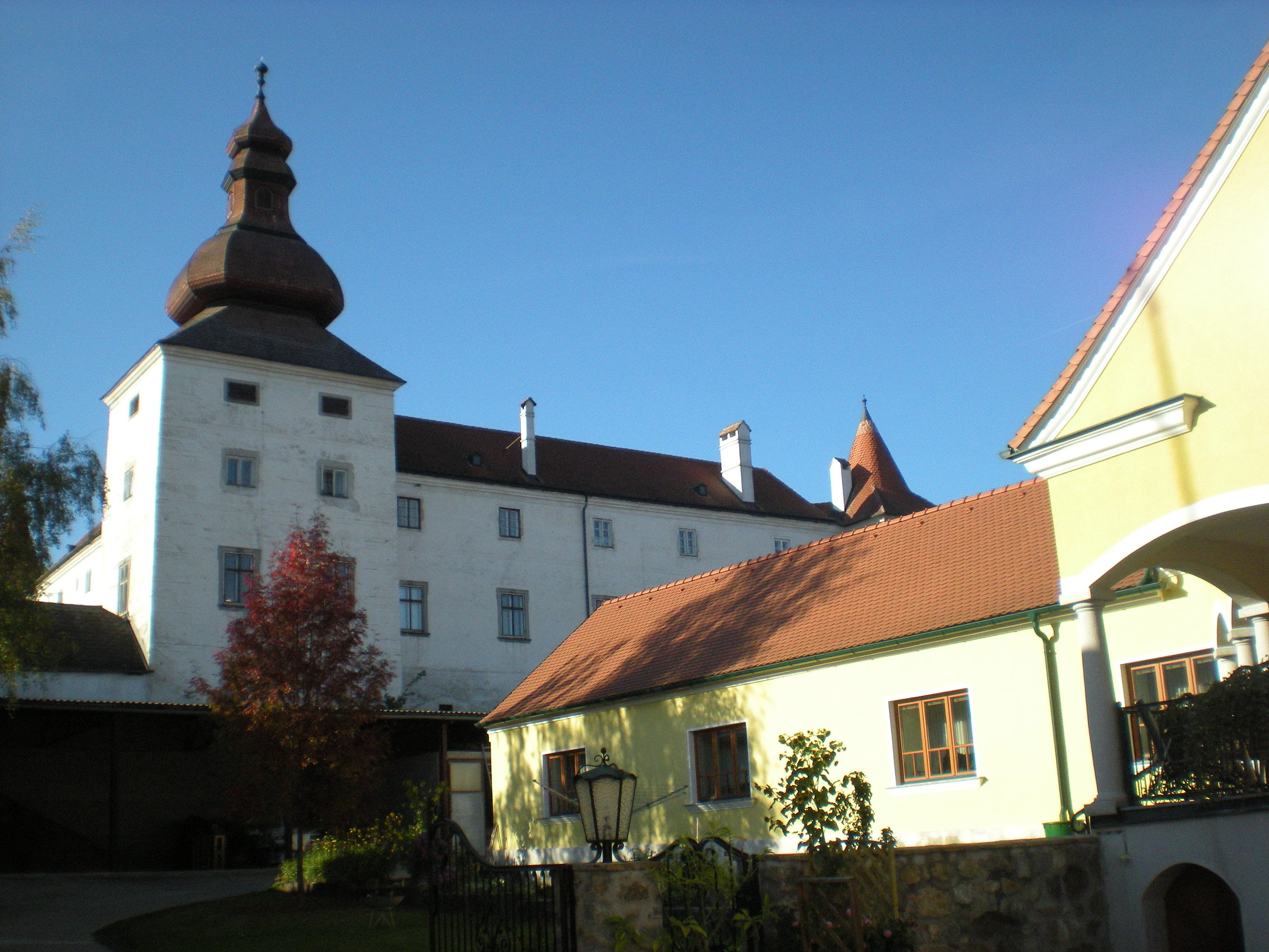 Dobersberg, Lower Austria - castle